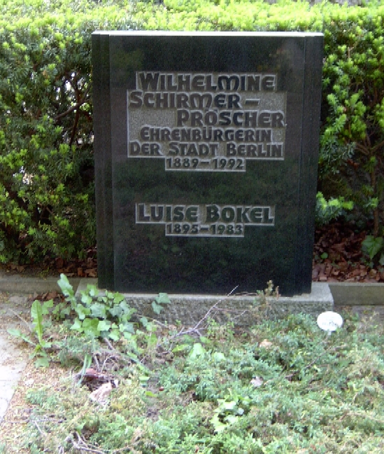 grave of Wilhelmine Schirmer-Pröscher on Friedhof der Dorotheenstädtischen und Friedrichswerderschen Gemeinden